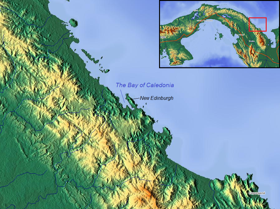 Location of "Caledonia"; the Darien colony